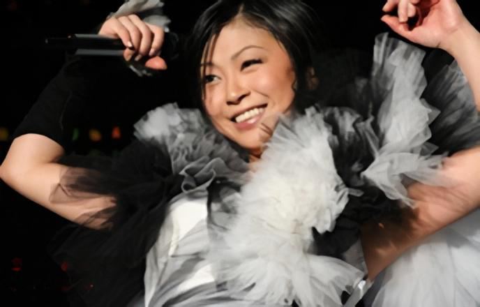 Utada Hikaru live in 2006